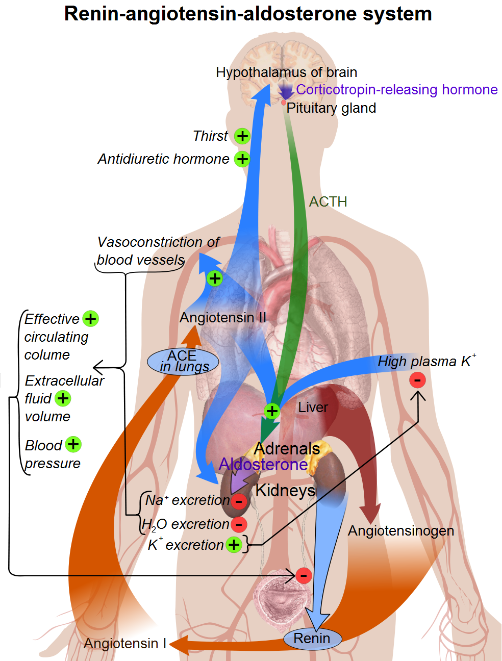 Overview of the renin-angiotensin system (See Wikipedia:Renin-angiotensin system). To discuss image, please see Talk:Human body diagrams References Page 866-867 (Integration of Salt and Water Balance) and 1059 (The Adrenal Gland) in: Walter F., PhD. Boron (2003) Medical Physiology: A Cellular And Molecular Approaoch, Elsevier/Saunders, pp. 1,300 ISBN: 1-4160-2328-3.